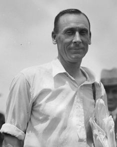 Jack Hobbs in Australia in 1928